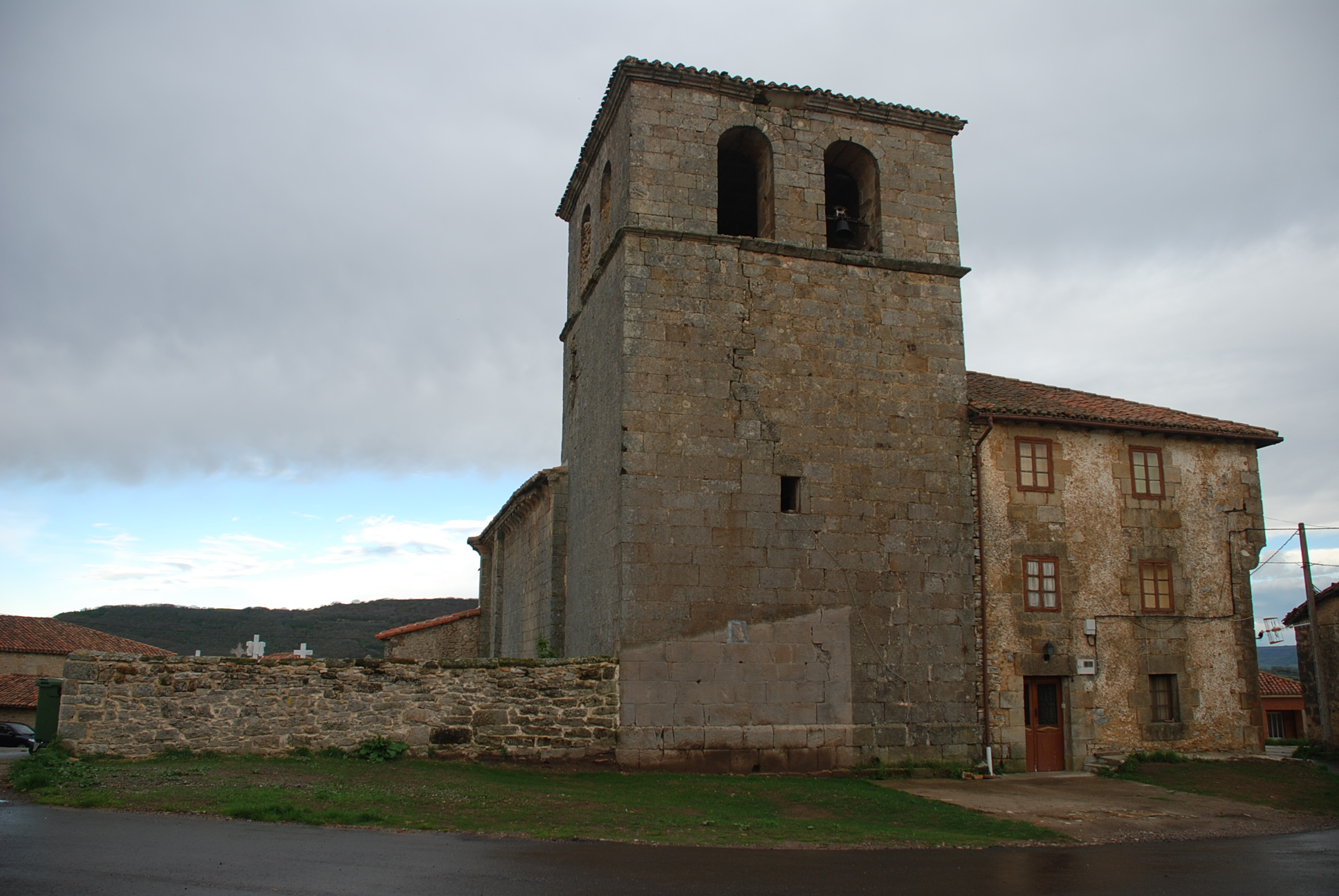 Church of Saint Andrew in Cabria (Palencia, Castile and León).